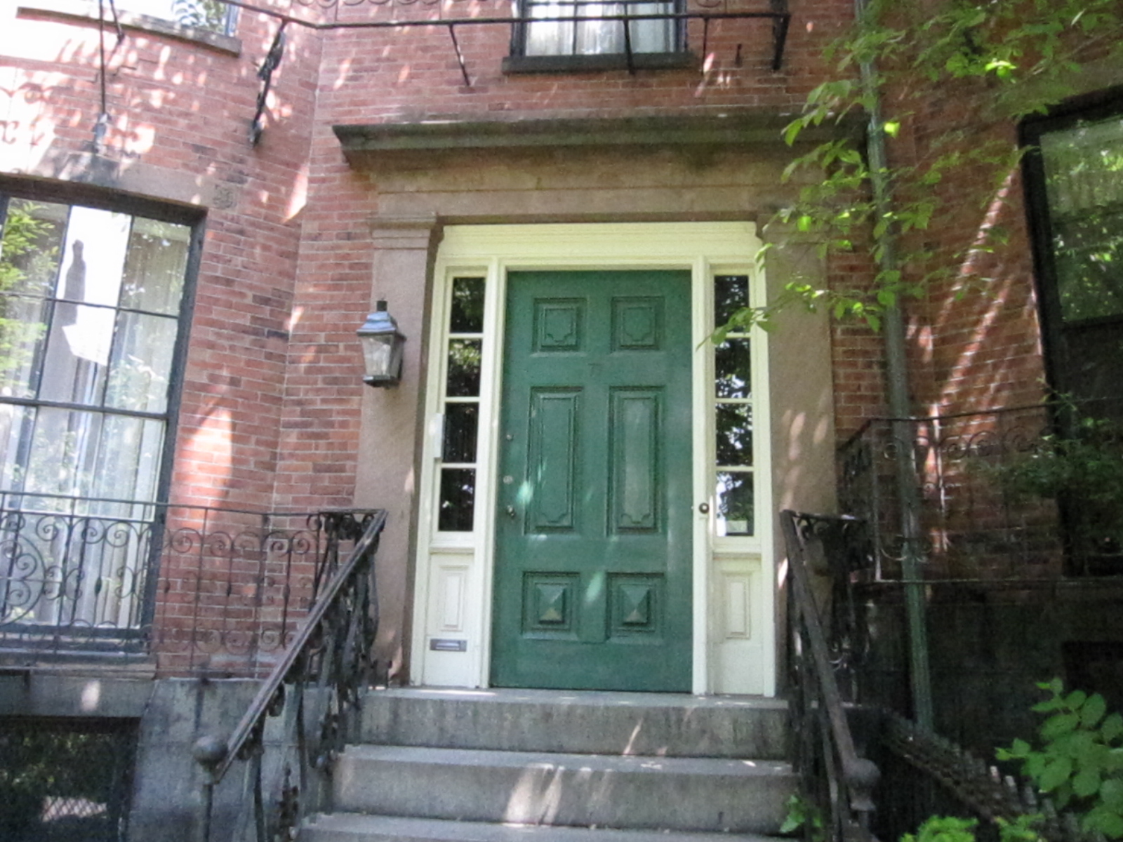 Club of Odd Volumes, 77 Mt. Vernon St., Boston